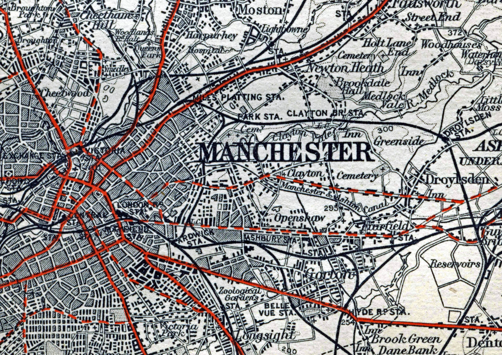 Map of east Manchester showing the then extant railway ststions in 1911